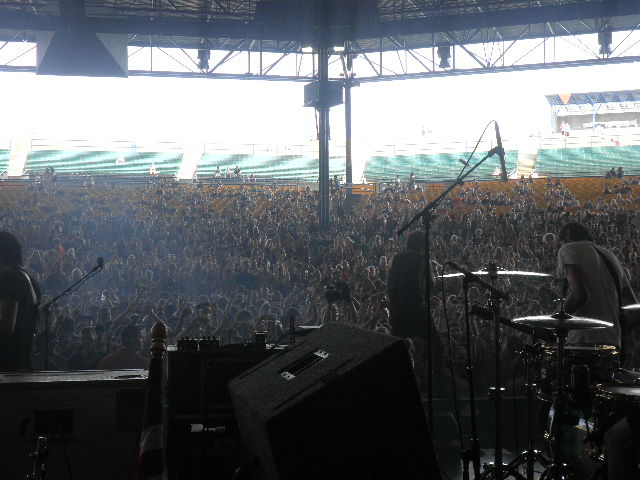 This photograph depicts the band, Breathe Carolina, performing in Summer 2012 at the Marcus Amphitheater, located on the Summerfest Grounds in Milwaukee, WI.